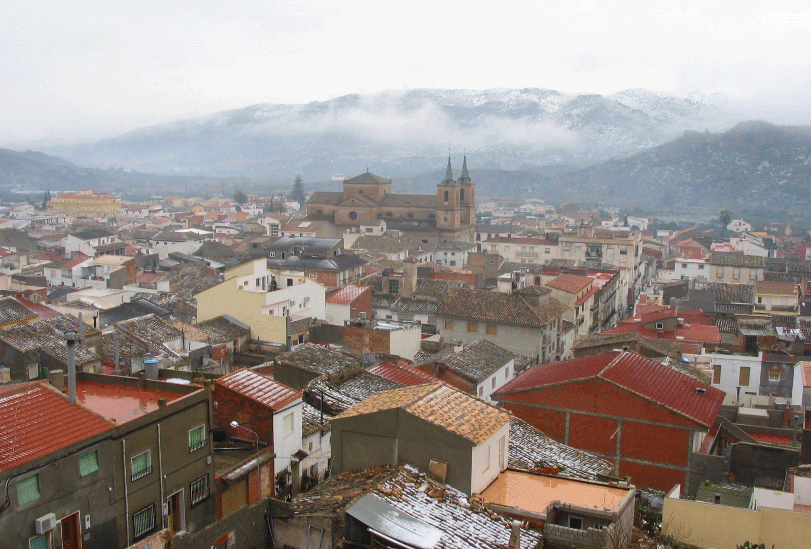 View from the single spire church over the rooftops towards the twin spire church